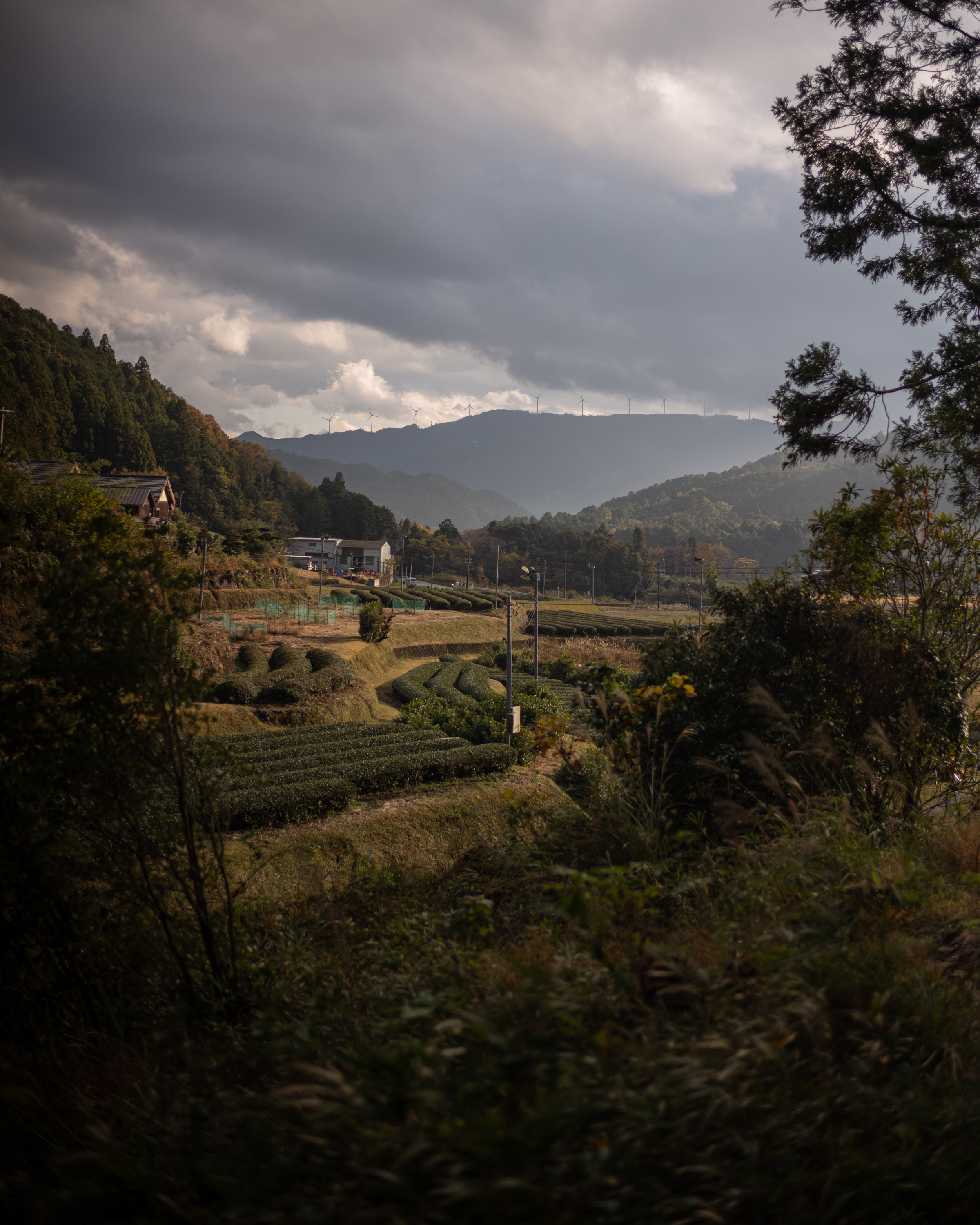 Looking out over the farmland near Kawazoe, day one of walking the Iseji starting from Ise Grand Shrine